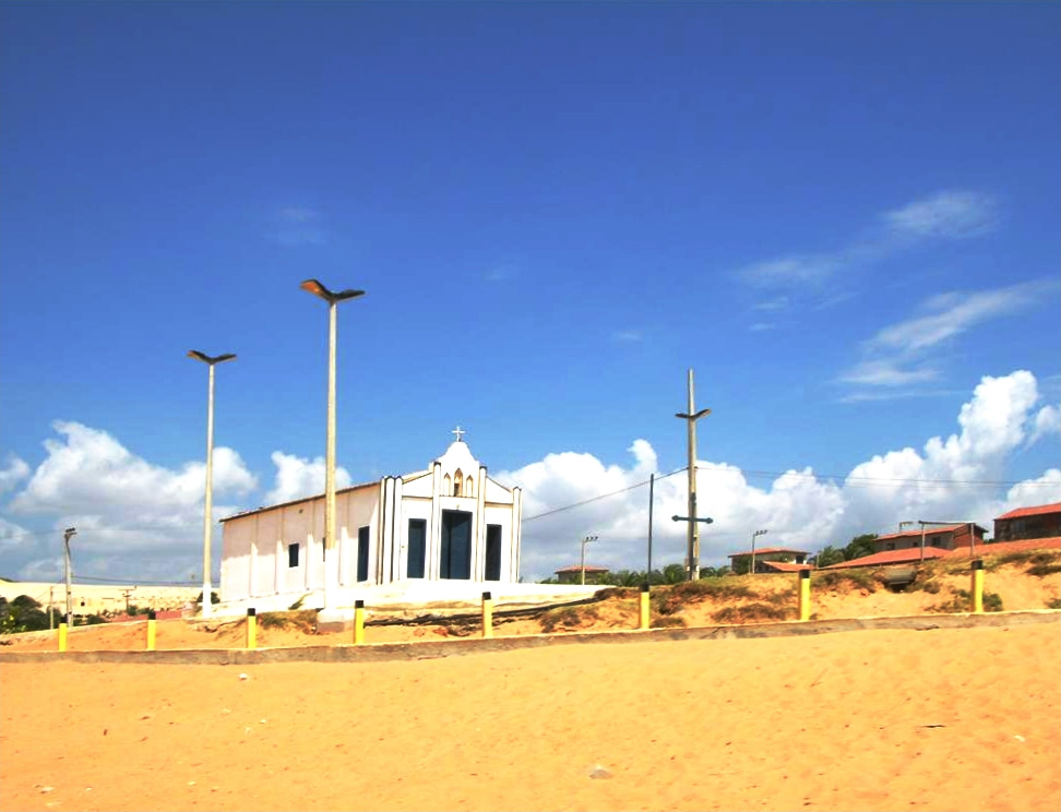 Church in the village of Canoa Quebrada, Ceará, Brazil.